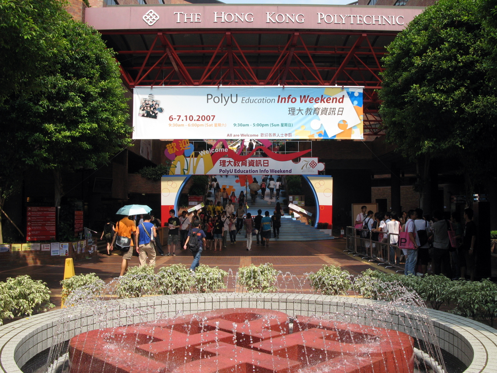 Hong Kong Polytechnic University Enterance